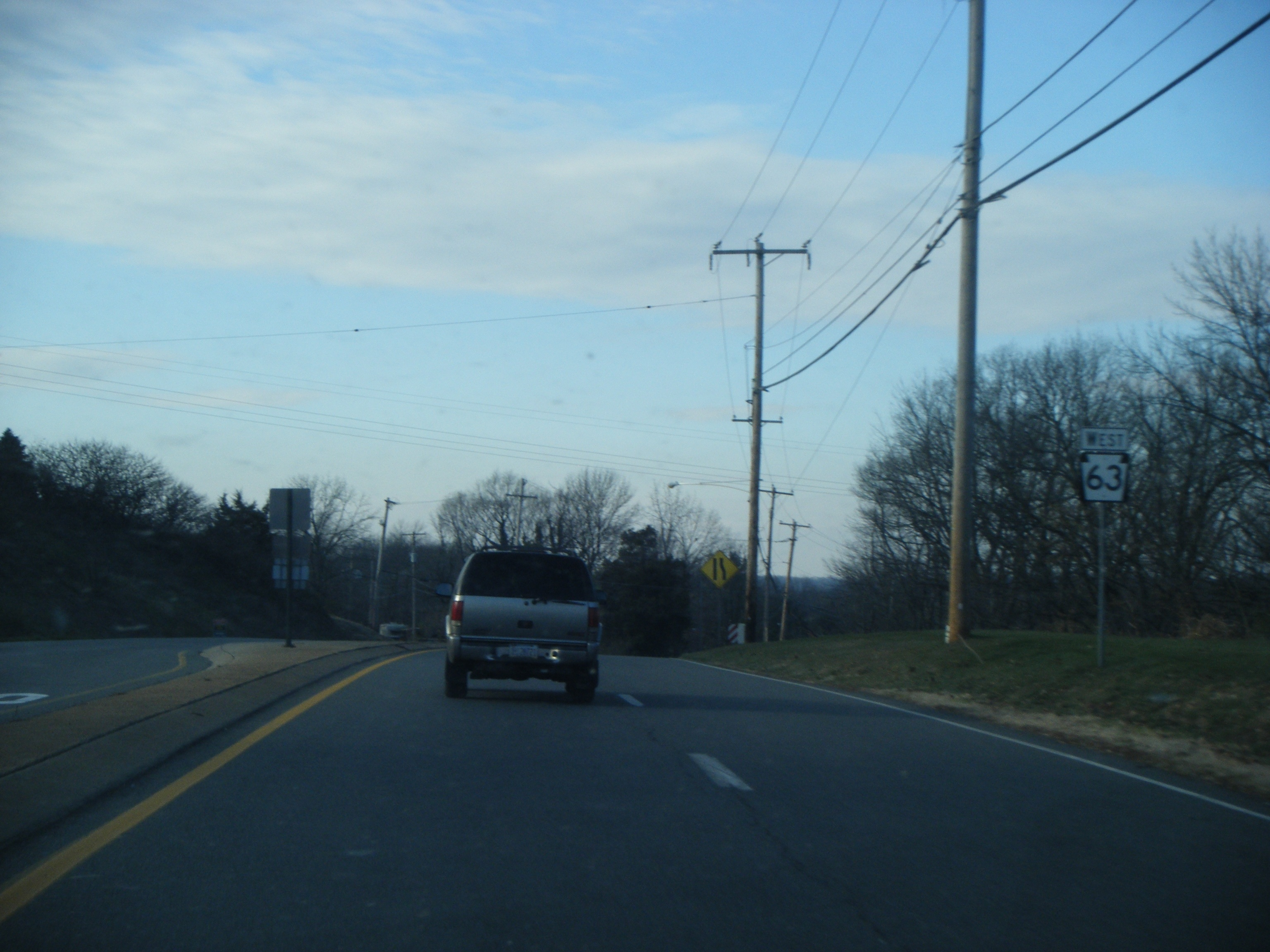 Westbound Pennsylvania Route 63 (Sumneytown Pike) past the intersection with Pennsylvania Route 113 (Harleysville Pike) in Harleysville.